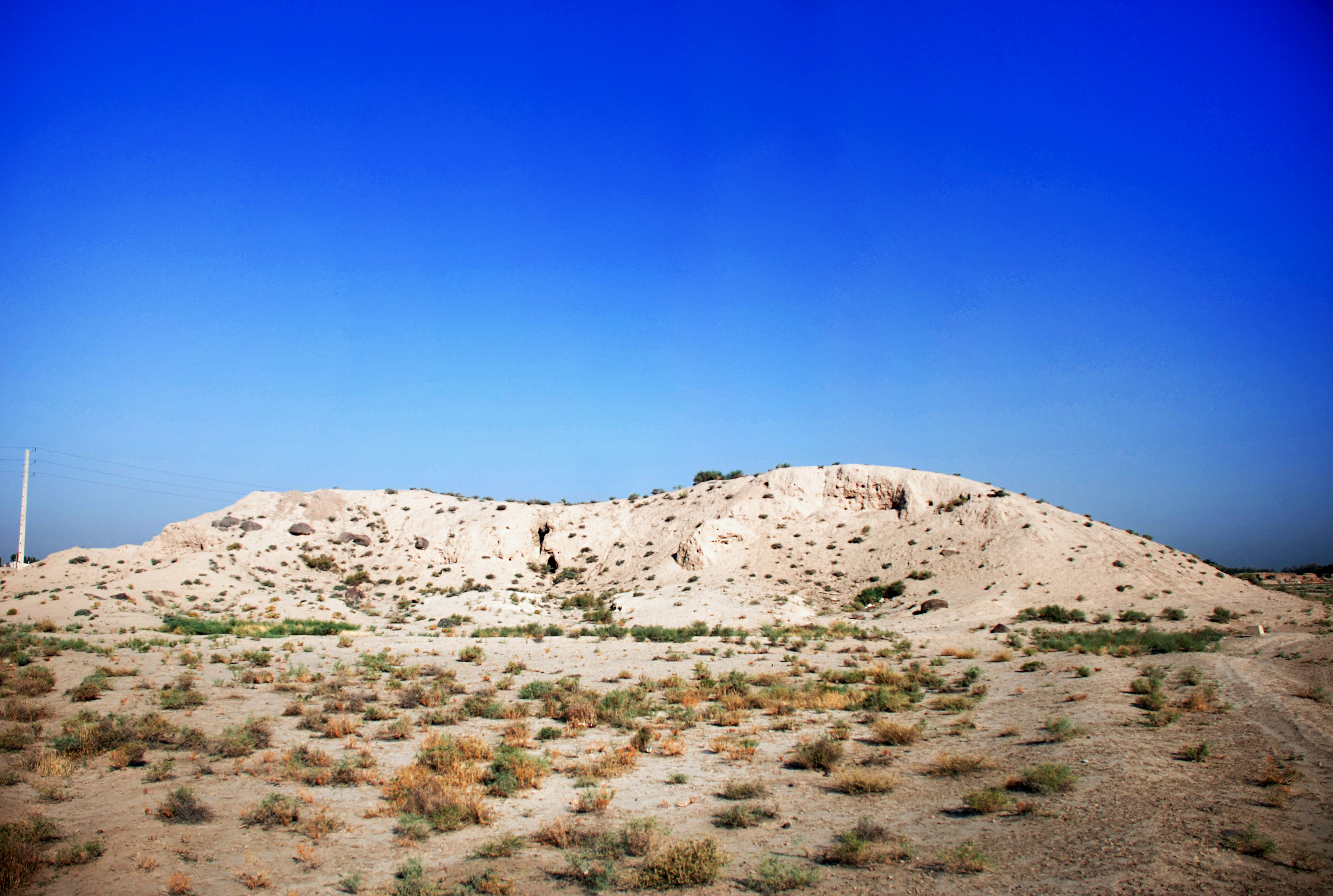 Balkin Tepe, Malard, Shahriyar, Tehran 19-09-2015